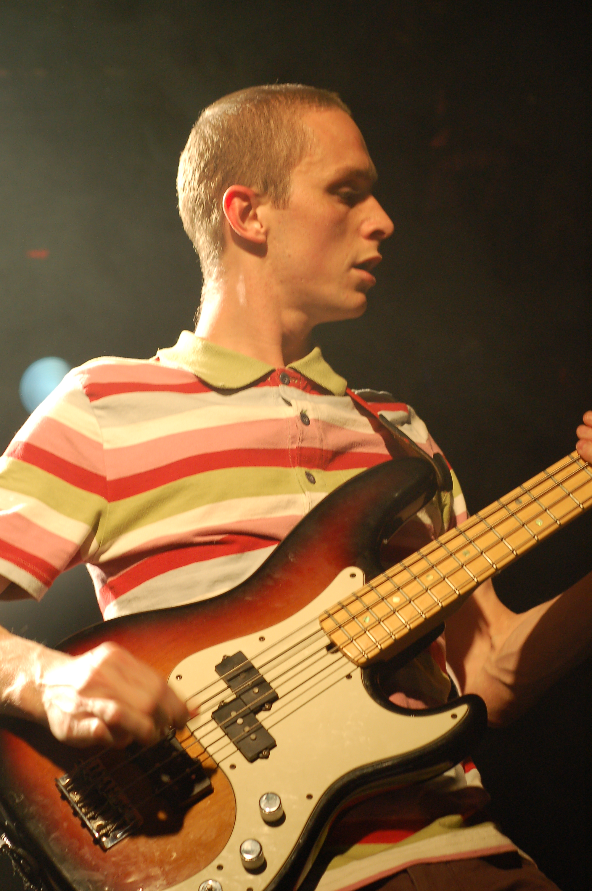 Daley Smith, former bassist of The Sunshine Underground